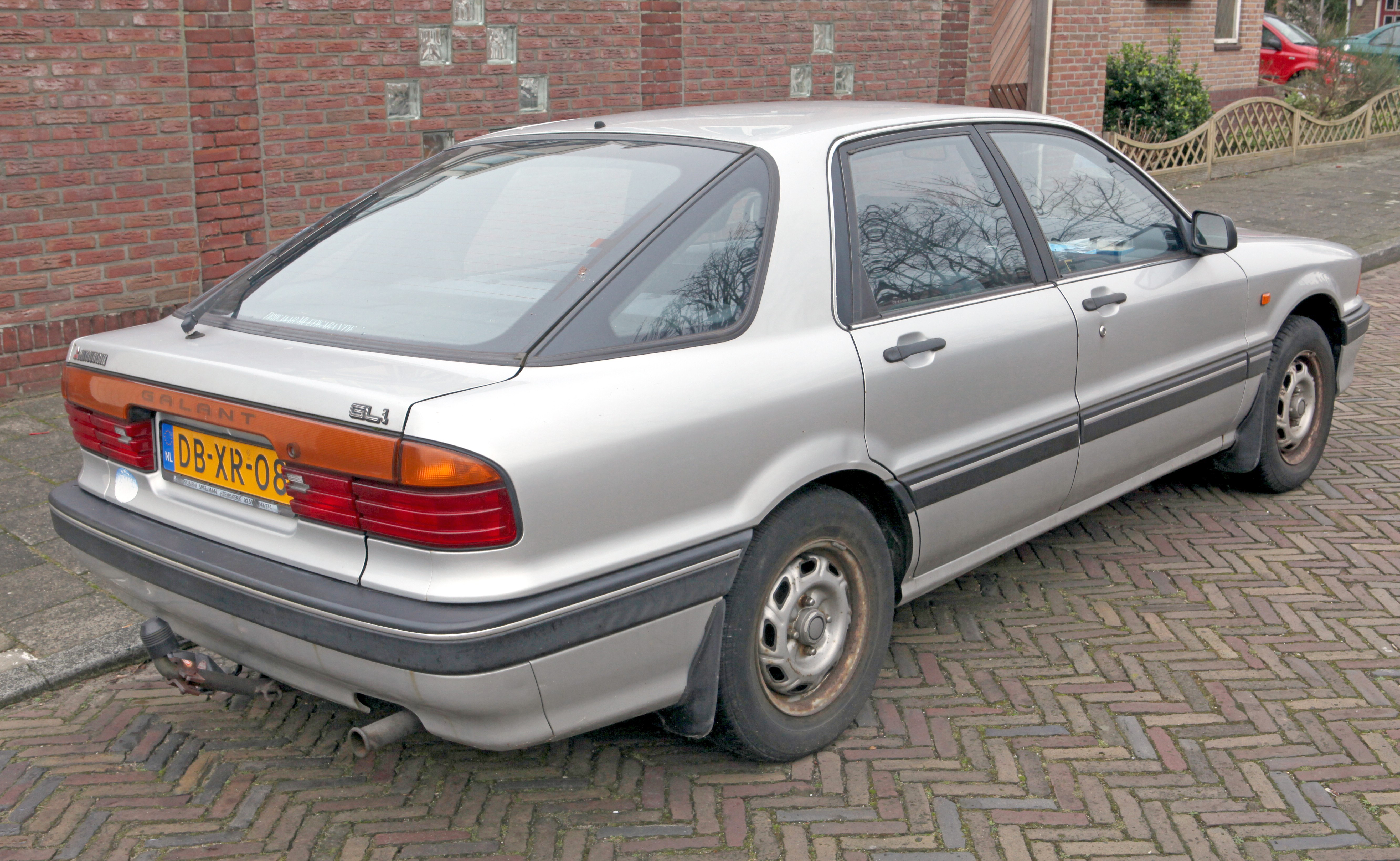 Mitsubishi Galant 1800 GLI hatchback